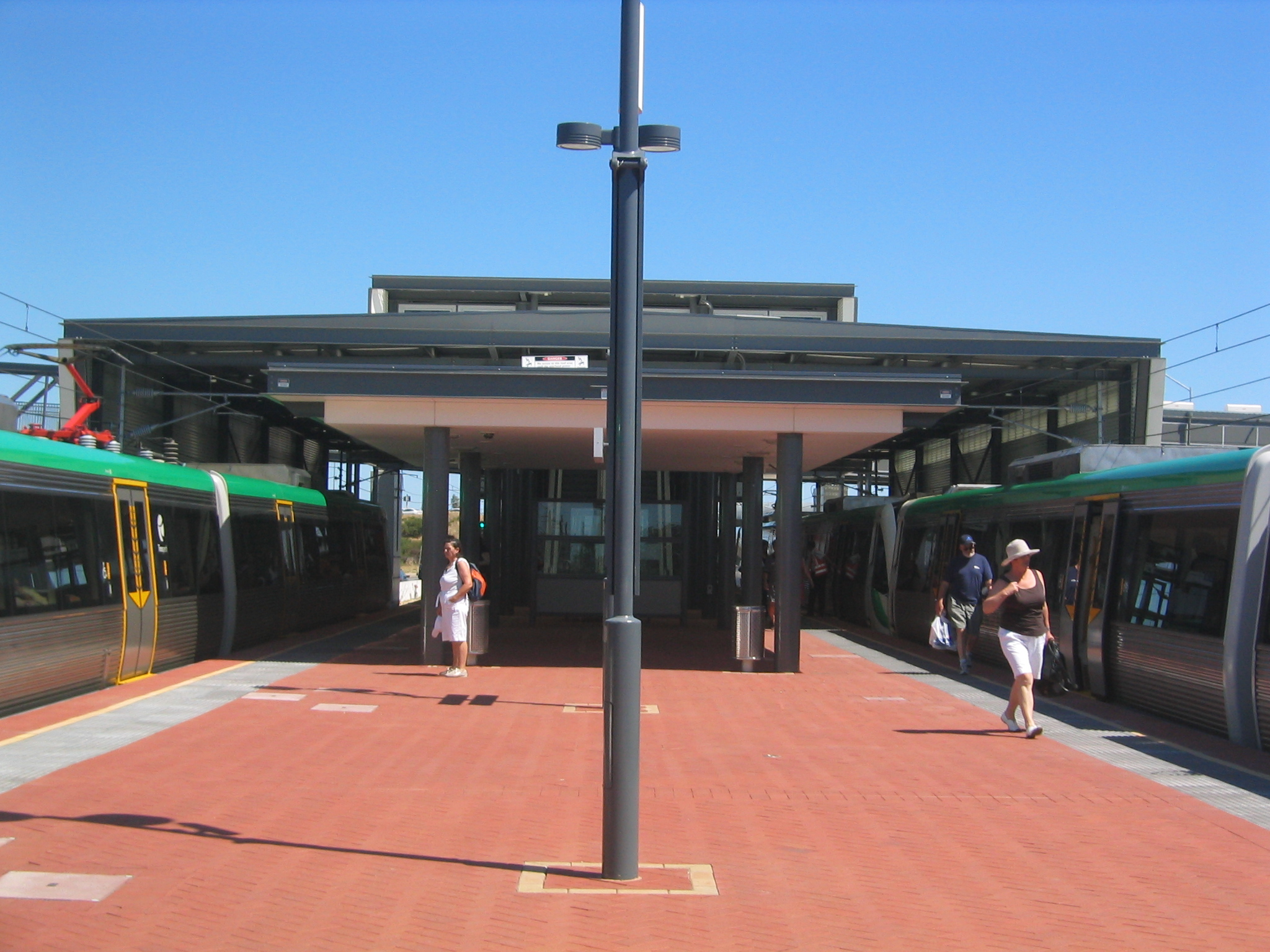 The platform level of Cockburn Central Station.